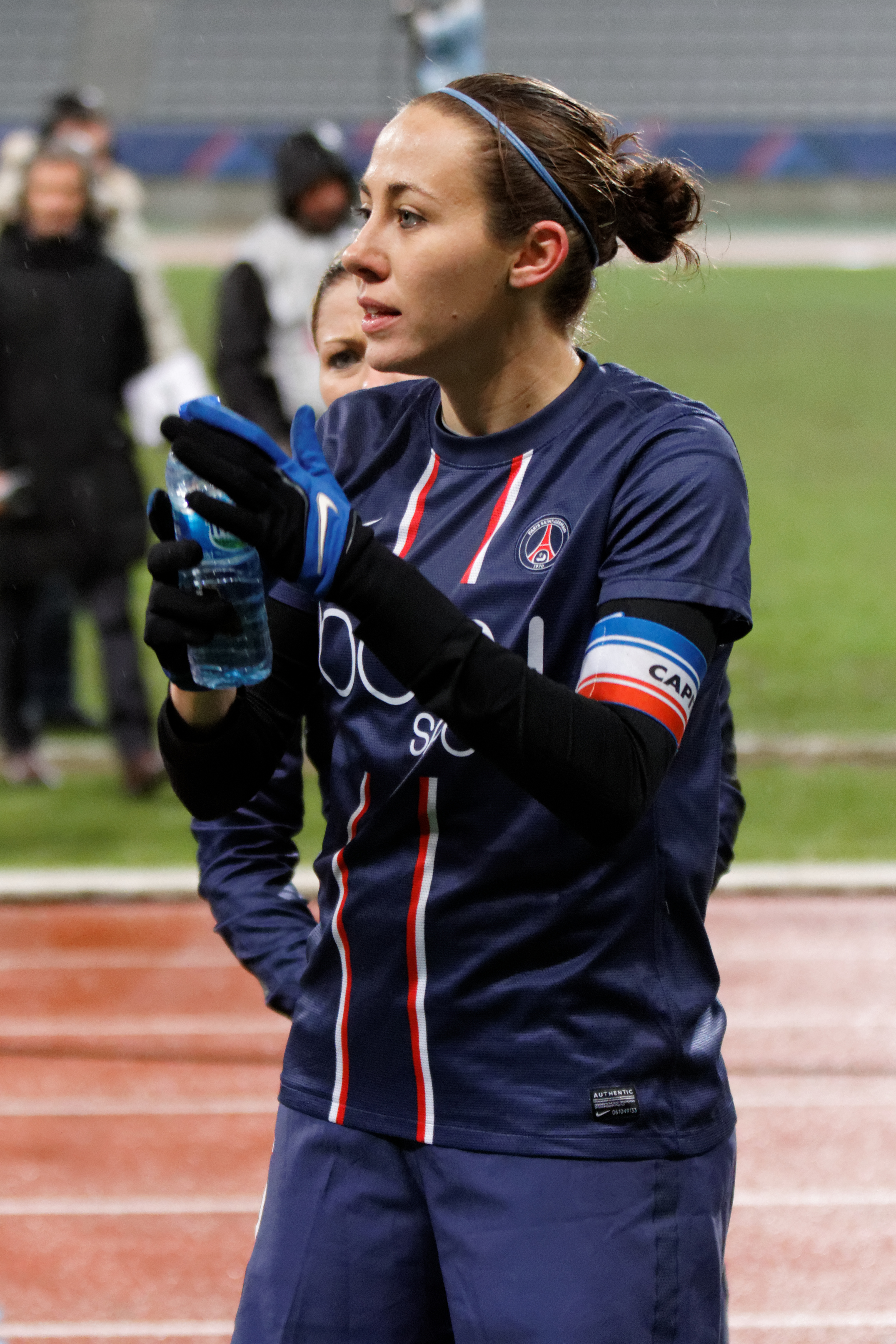 PSG-Montpellier, January 13th, 2013.